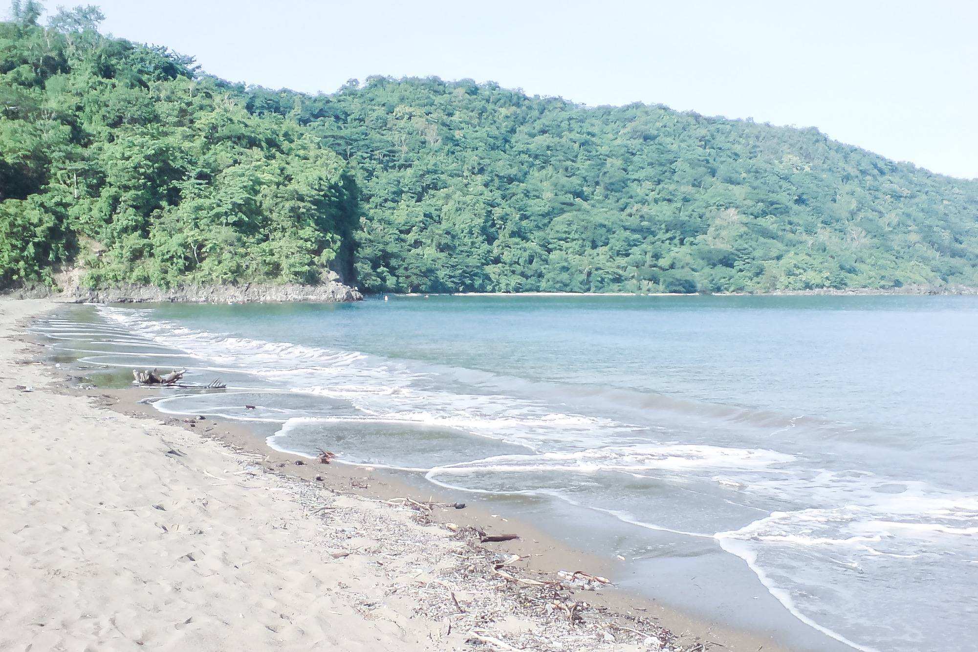 Underdeveloped beach in Brgy. Calayo in Nasugbu, Batangas.